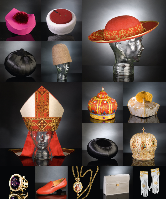 The Philippi Collection Sardu: Sammlung Philippi